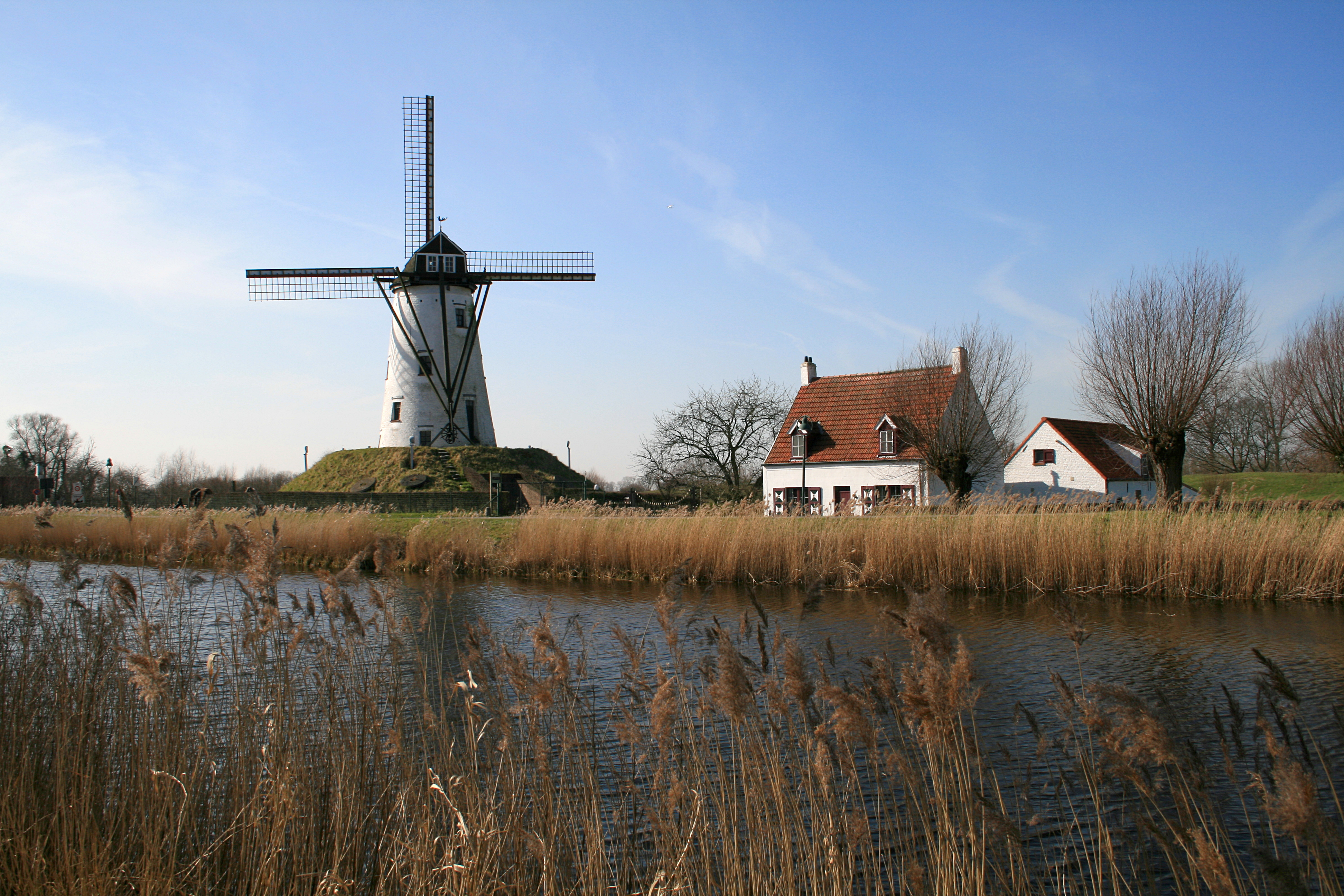 Damme (België), Schellemolen, Witte Molen, or even Dullaerts molen (1867).